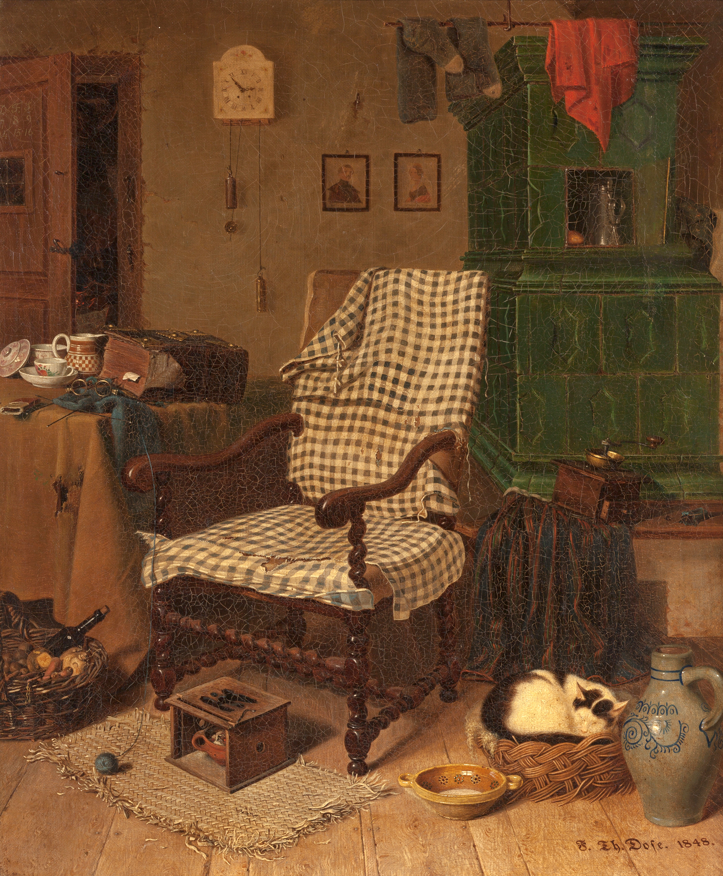 Home Interior with Knitting Chair and Sleeping Cat